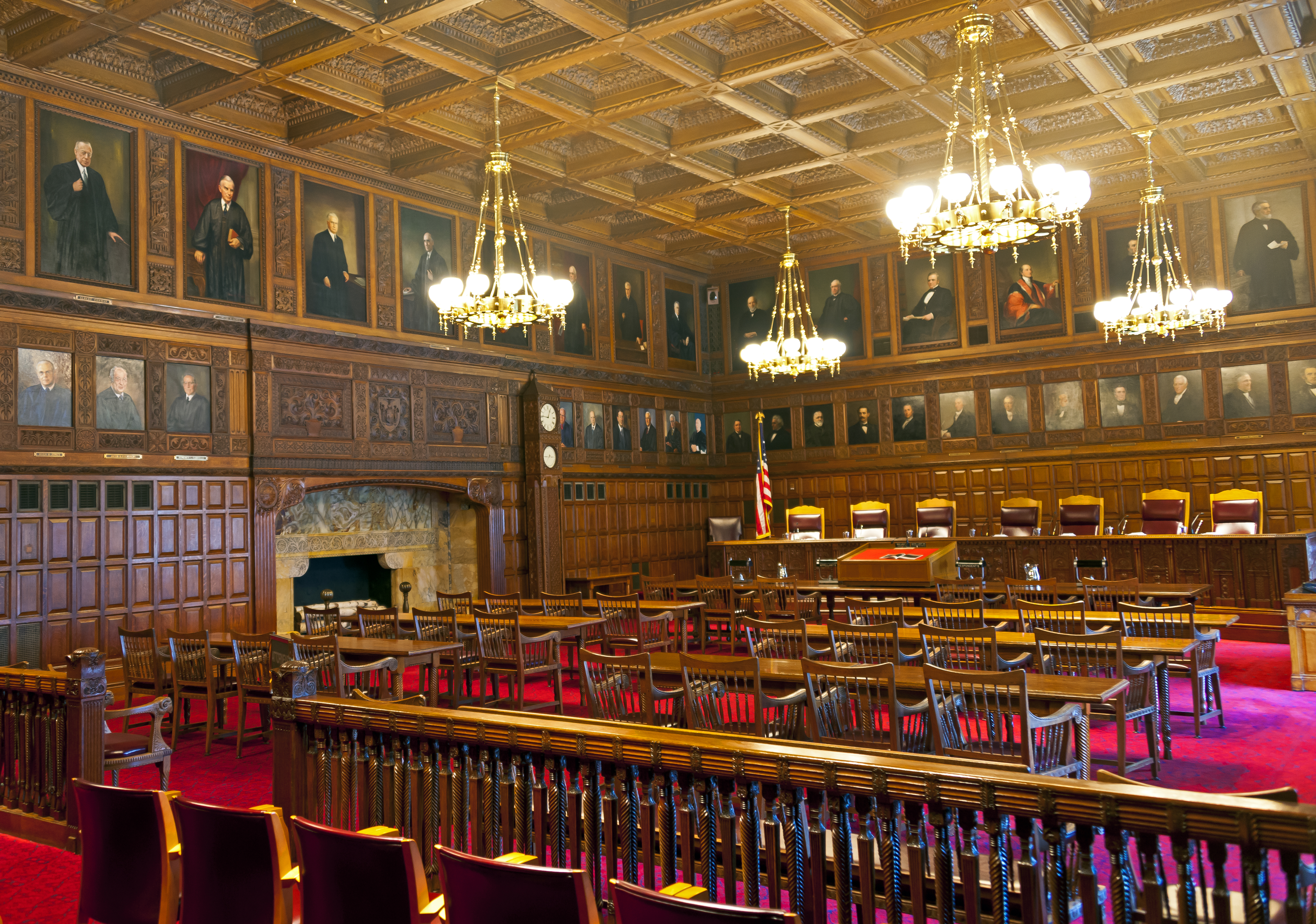 Courtroom of the New York Court of Appeals, in its building in Albany